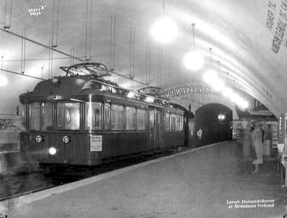 Nationaltheatret underground tram station, Oslo, Norway. Tram from Holmenkollbanen.